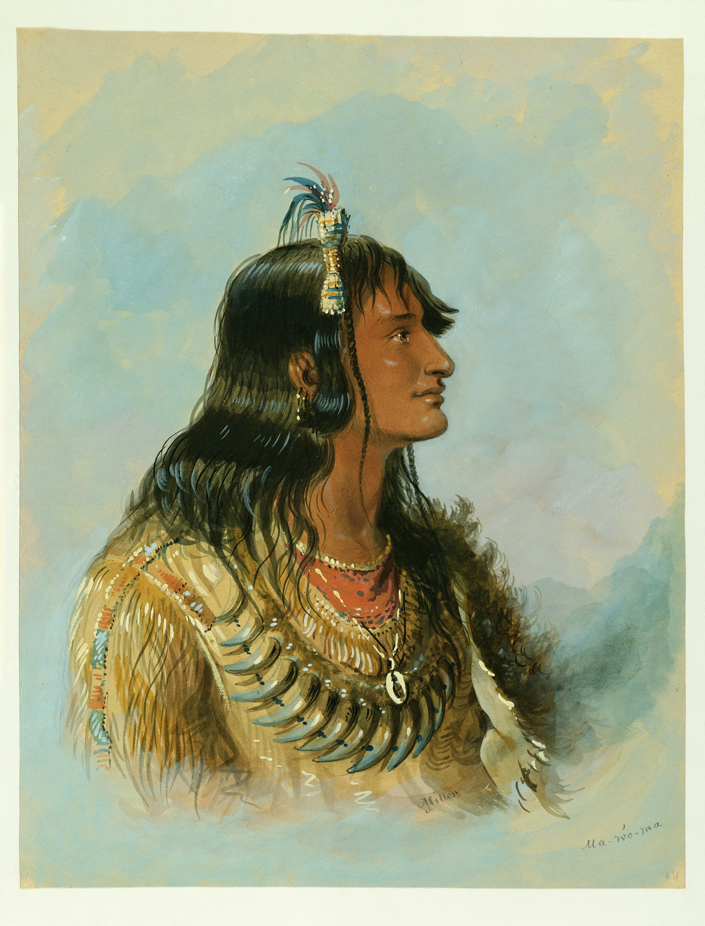 Ma-wo-ma, whose name was somewhat misleading because it translates "Little Chief," was leader of the approximately three thousand Snake Indians, many of whom came to the rendezvous. He was "decidedly in every sense superior to any Indian that we had met," Miller declared. "He was a man of high principle, in whom you could place confidence." Miller and Ma-wo-ma were both artists, neither terribly appreciative of the other's work: "I noticed that all four of the legs of the horses were on one side," Miller observed of one of Ma-wo-ma's paintings. "This arose from a want of knowledge of perspective. He also colored them with the stick end of a brush instead of the hair end,- not probably having seen before an article of this kind... A running commentaary was kept up while he proceeded with the drawing. There was a little more of the 'ego' than good taste might have dictated but it sat with exceeding grace on our excellent friend Ma-Wo-Ma. And the interpreter so far from softening no doubt exaggerated- as such gentry are wont to do." Ma-wo-ma criticized Miller's work for being too much like the "vulgar and familiar species of art" that he could see in his "looking glass."